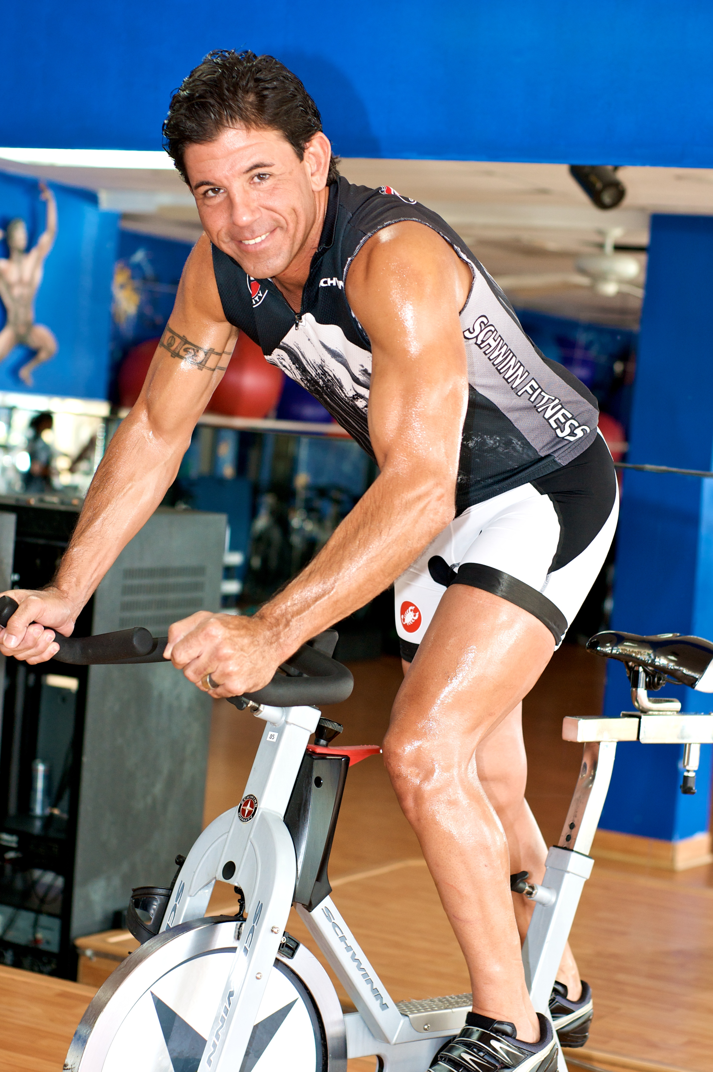 A photo shot of Billy Garcia for indoor cycling bikes